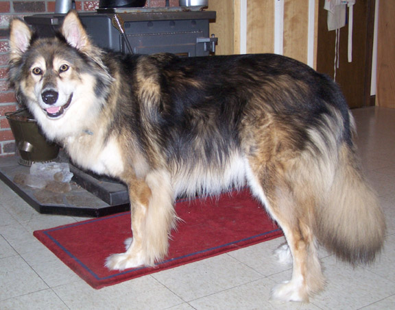 Mackenzie River Husky, Black, caramel & cream; female; 44kg.